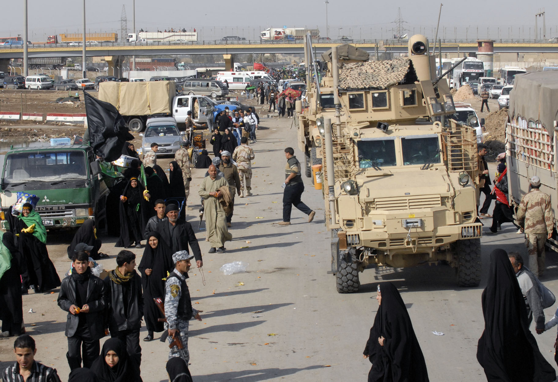 Soldiers of Company E, 1st Battalion, 22nd Infantry Regiment, attached to the 1st Special Troops Bn., 1st Brigade Combat Team, 4th Infantry Division, conduct a route clearance mission along the Rashid District's Airport Road in southern Baghdad, Feb. 11. The engineer company, deployed in support of the Multi-National Division - Baghdad, assisted Iraqi security forces during security operations to ensure that Iraq's Muslims can observe the Islamic religious holiday of Arba'een in peace. The combat engineers patrol the major highways and side streets in southern Baghdad looking for improvised explosive devices and unexploded ordnance. See more at Army.mil